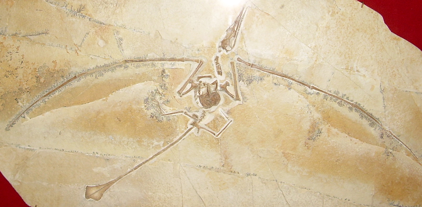 Photograph of a fossil cast of a Rhamphorhynchus skeleton taken at the North American Museum of Ancient Life.